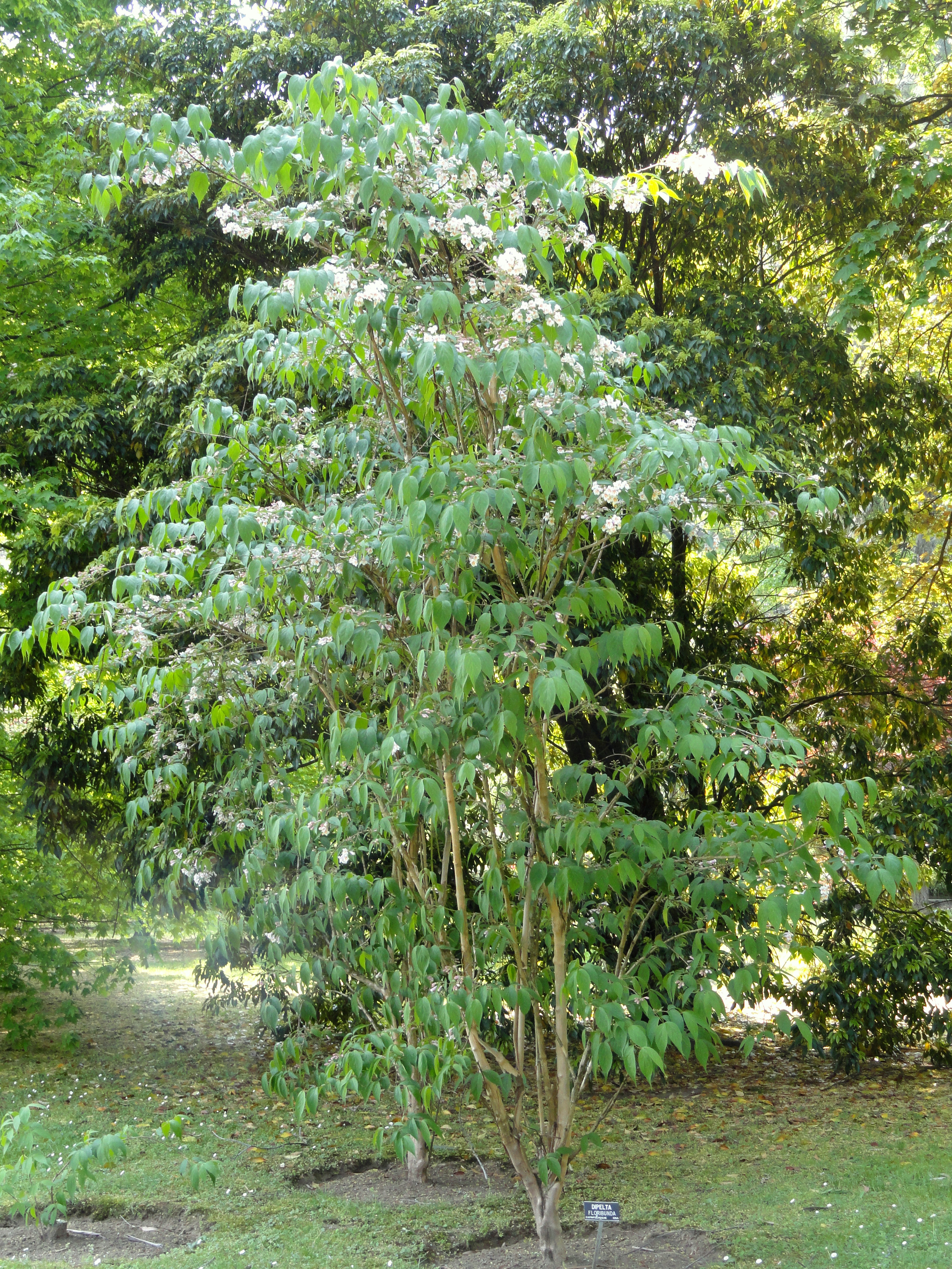 Dipelta floribunda. Botanical specimen on the grounds of the Villa Taranto (Verbania), Lake Maggiore, Italy.